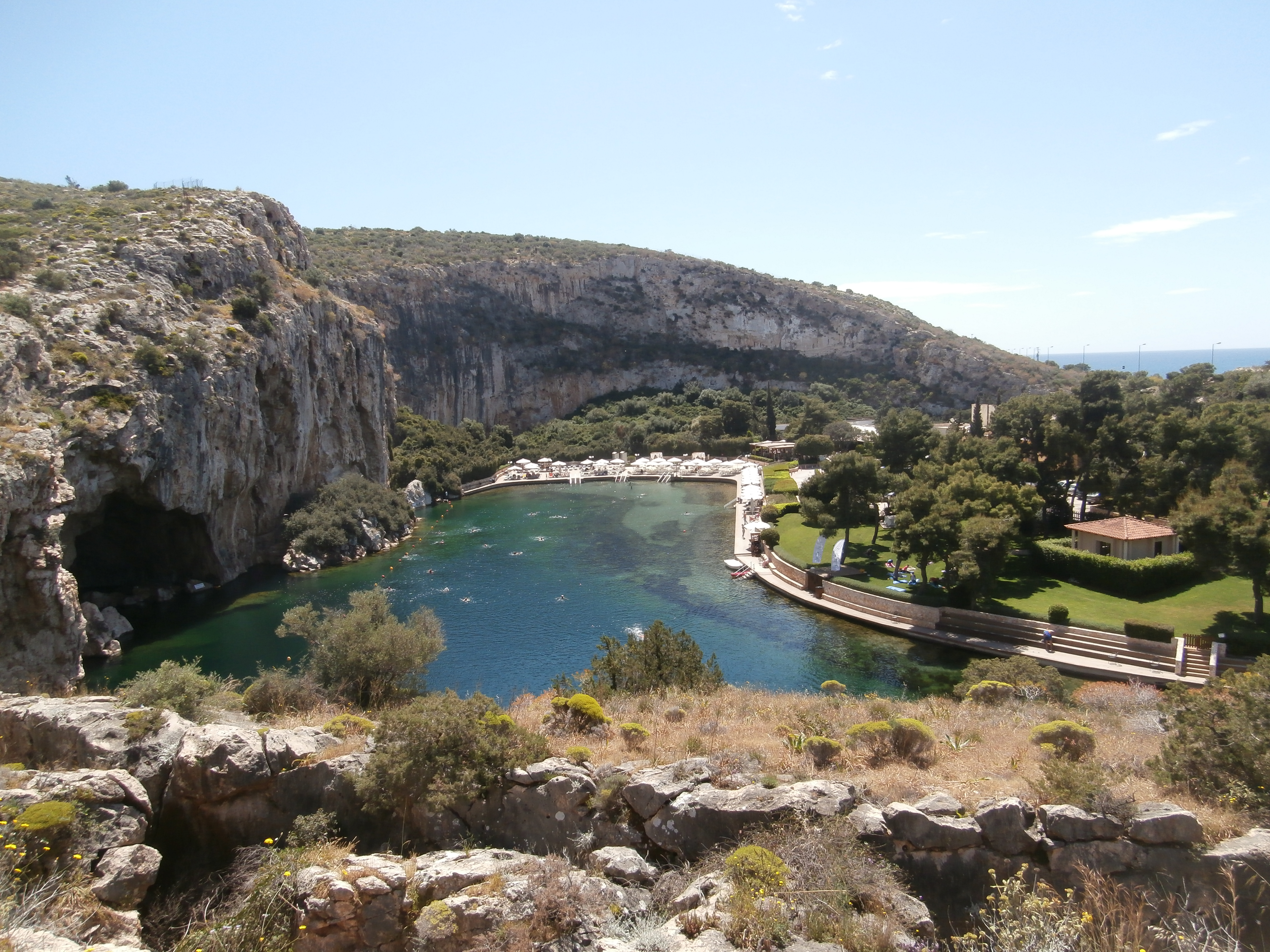 Vouliagmenis lake